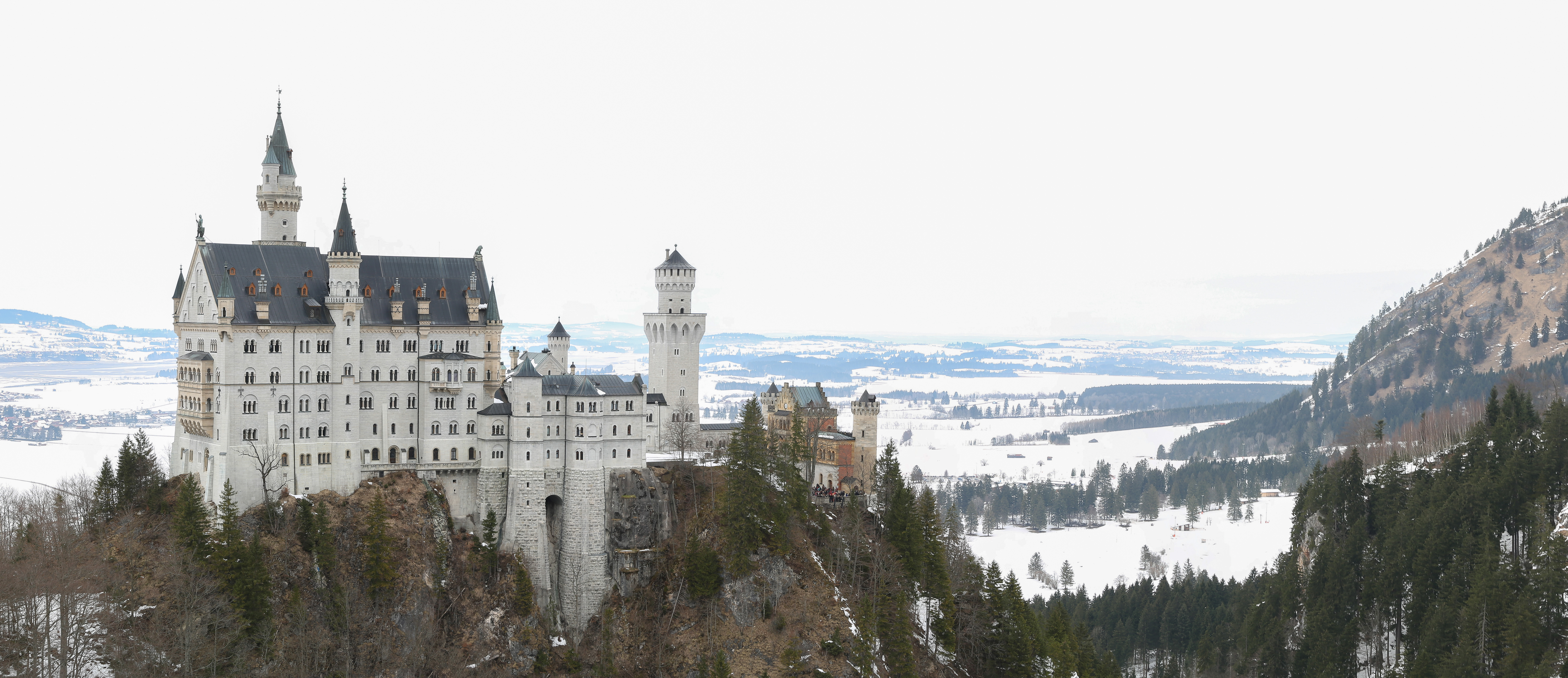 Neuschwanstein, Schwangau, Germany